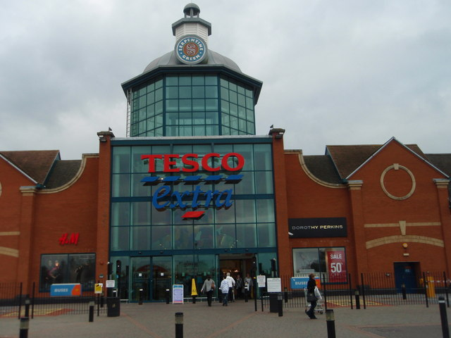 Serpentine Green Shopping Centre, Hampton Hargate, Peterborough, England. This retail complex is built on the unlikeliest brown field site. For decades the landscape around this area could have been described as lunar, it was the overburden and workings of the London Brick Company. The brick kilns of Fletton and Orton would have used the clay from these workings and it is a reasonable chance that your house may have bricks made of clay extracted from underneath this site.